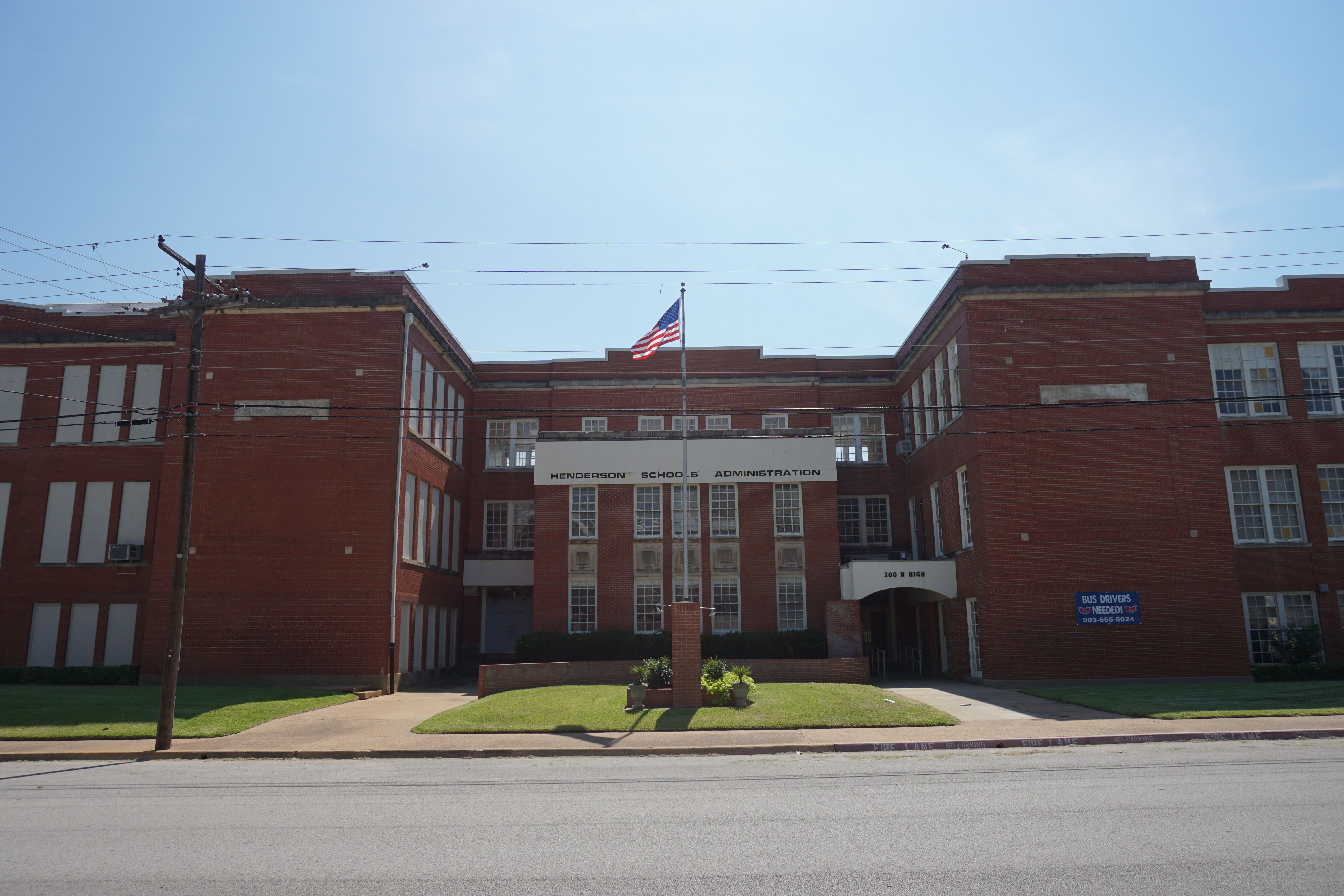 The Henderson ISD Administration building in Henderson, Texas (United States).